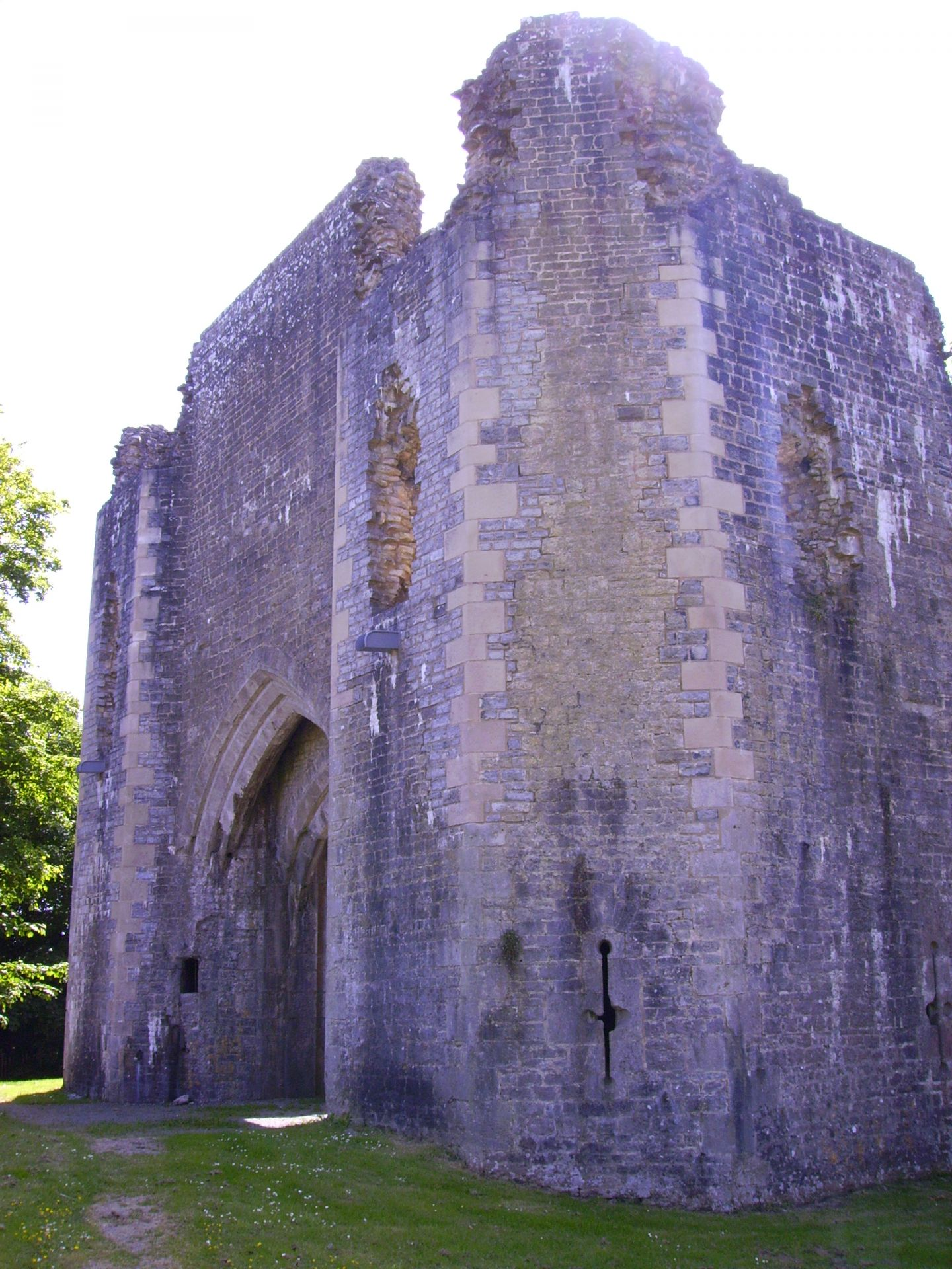 St Quintins Castle gatehouse, Cowbridge, South Wales